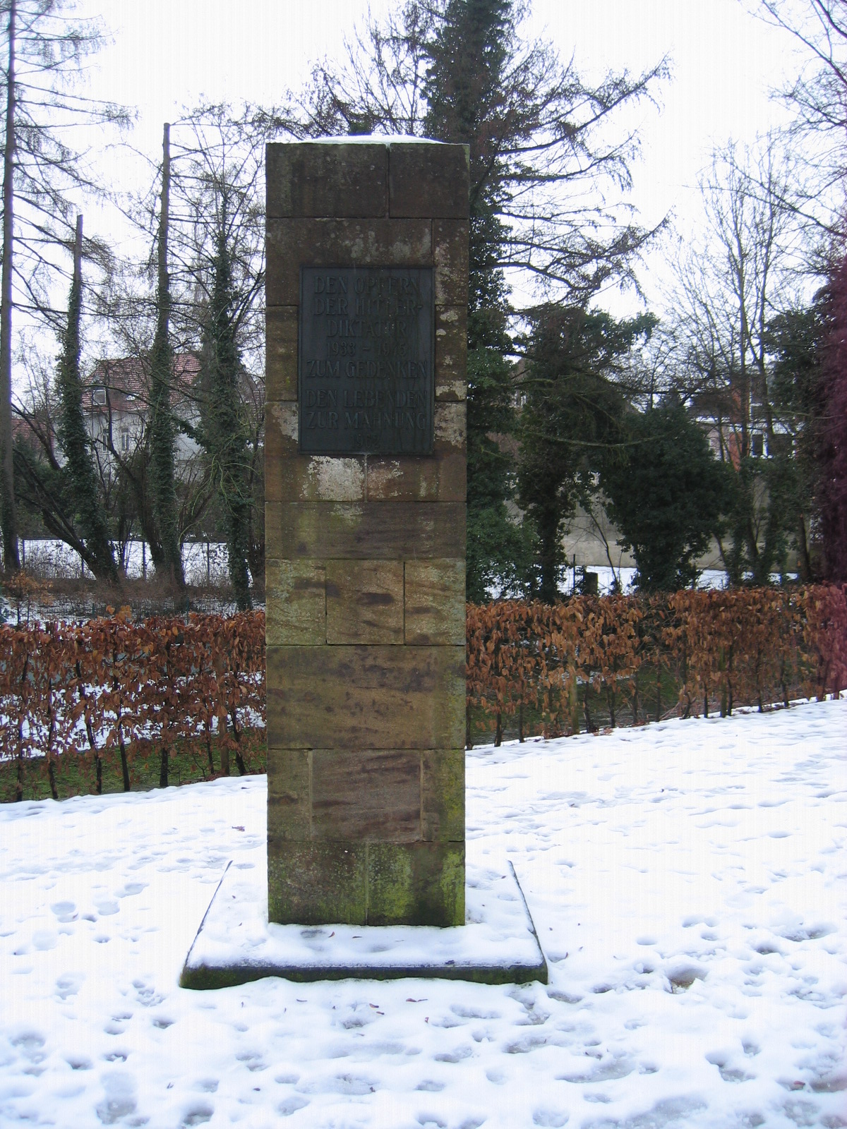 in Herford, District of Herford, North Rhine-Westphalia, Germany.